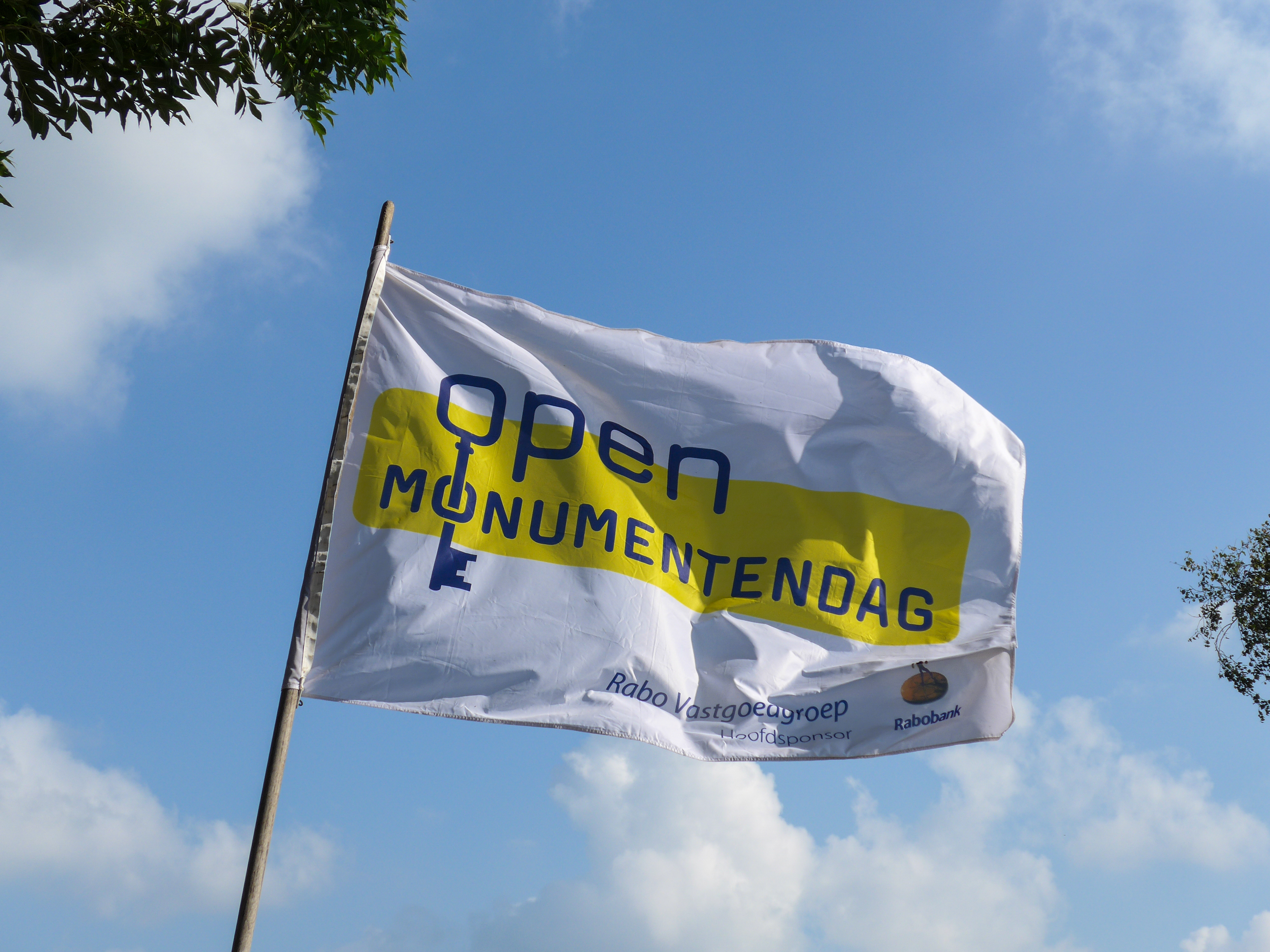 Open Monumentendag flag at the pumping station near Peizermade, a village in in the Dutch province of Drenthe.